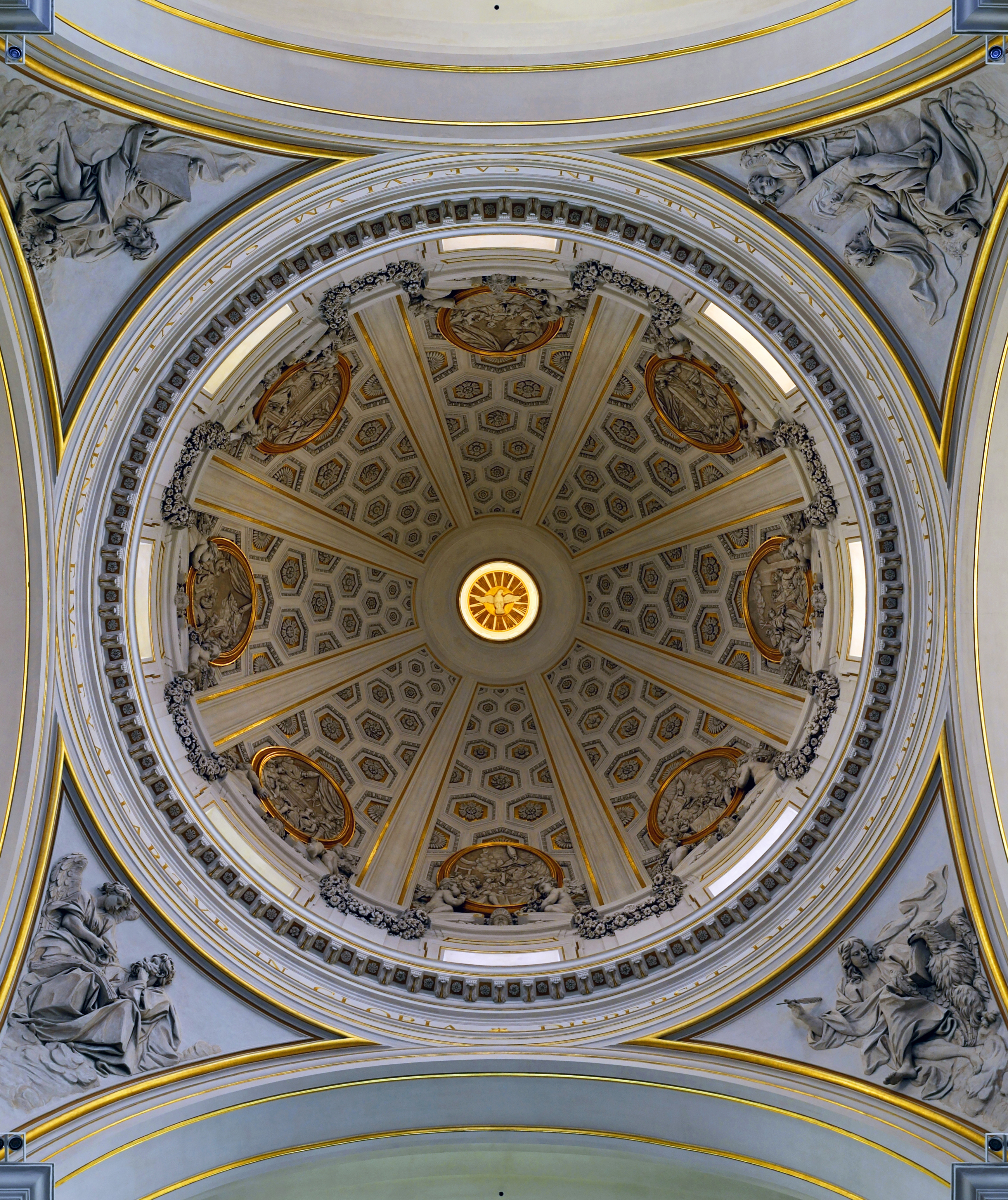 Dome of Bernini's Parish Church in Castel Gandolfo